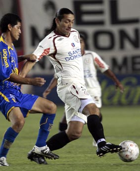 Carlos Galvan back central, defensa del club Universitario de Deportes